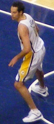 Jeff Foster during the Atlanta Hawks at Indiana Pacers game on Dec. 30, 2008